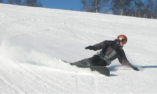 Snow boarding